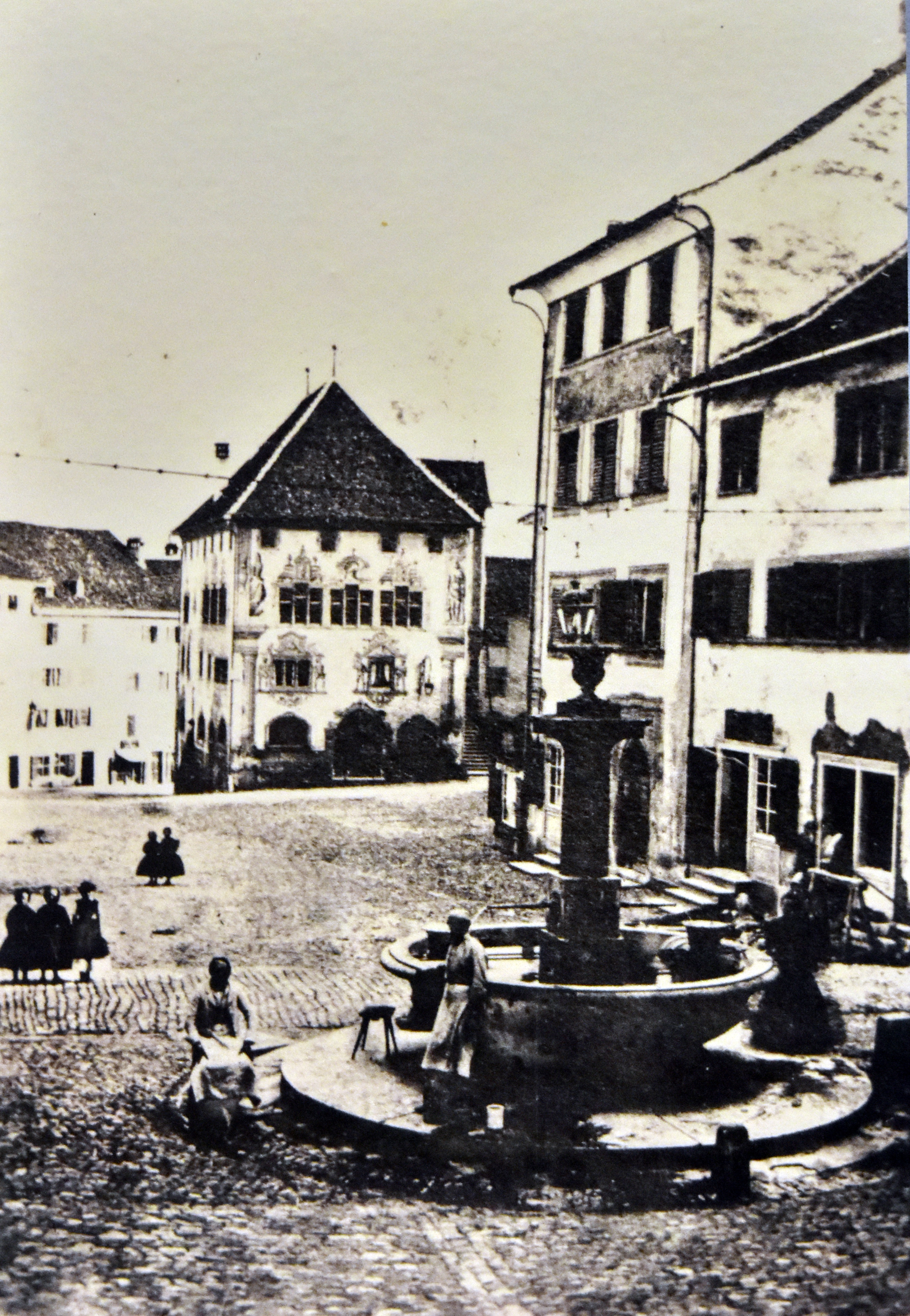 Collection of the Stadtmuseum) in Rapperswil (Switzerland): Ausstellung Der Zeit voraus. Drei Frauen auf eigenen Wegen. Marianne Ehrmann-Brentano Schriftstellerin und Journalistin (1755–1795) ++ Alwina Gossauer Fotografin und Geschäftsfrau (1841–1926) ++ Martha Burkhard Globetrotterin und Malerin (1874–1956) : Alwina Gossauer, die älteste bekannte Fotografie von Rapperswil 1865 mit Hauptplatz (Rapperswil), Brunnen und Rathaus.